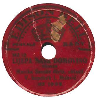 Edison-Bell record, 1936, Croatian anthemHrvatski: Gramofonska ploča Edison-Bell, dirigent Ivo Muhvić: Lijepa naša, 1936